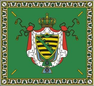 The standart of the 4. Infantrieregiment Nr. 103.